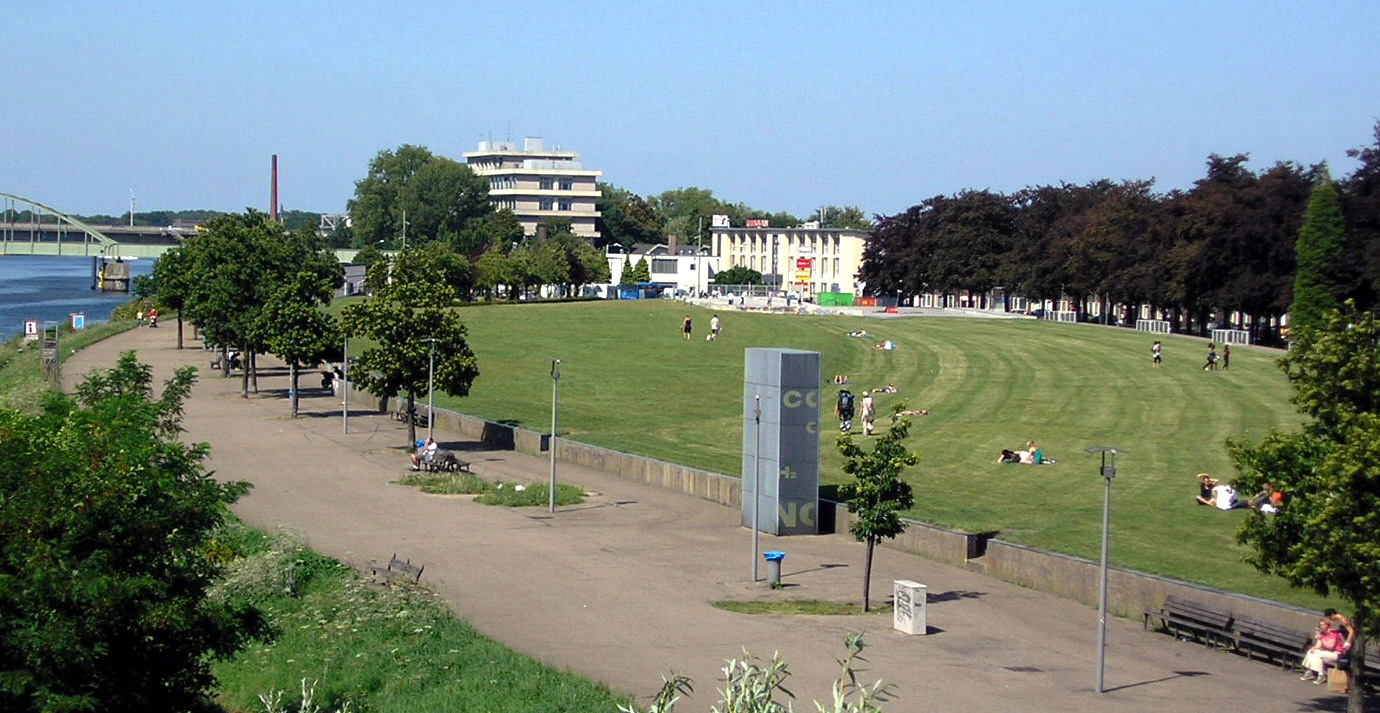 Griendpark along the river Meuse, Maastricht, the Netherlands